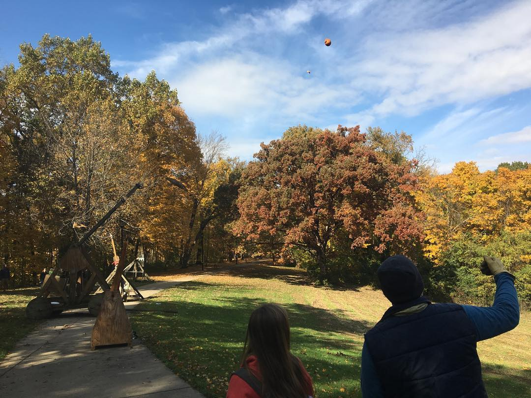 A pumpkin is launched into the Stanbery Park ravine.